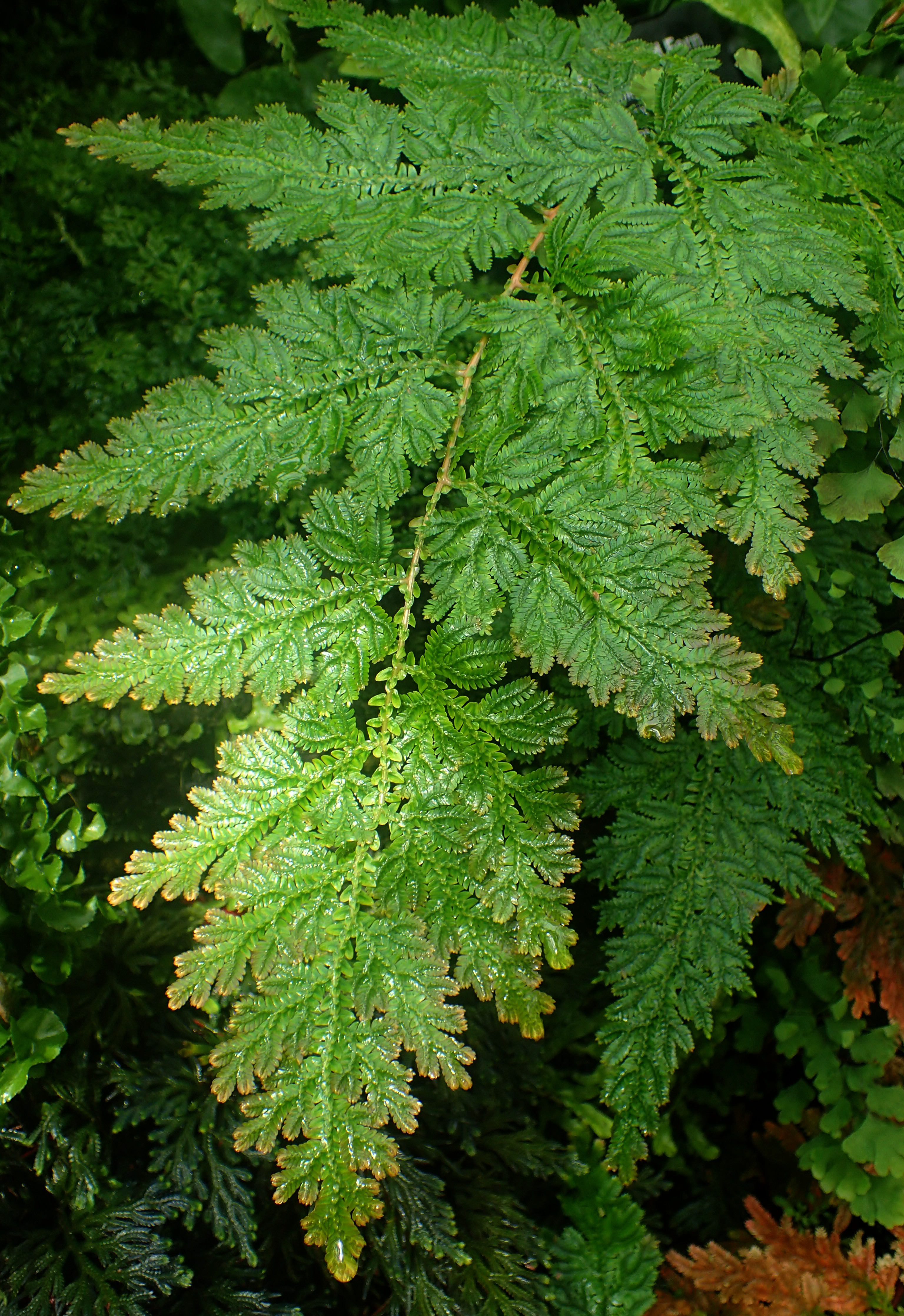 Selaginella willdenowii at Garfield Park Conservatory